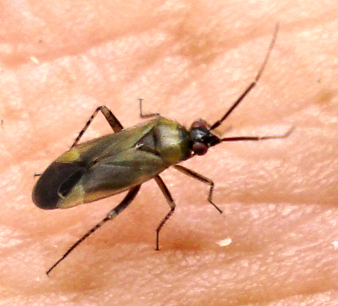 Plagiognathus arbustorum On: Giant hogweed Location: Lincoln City Site: Backies field